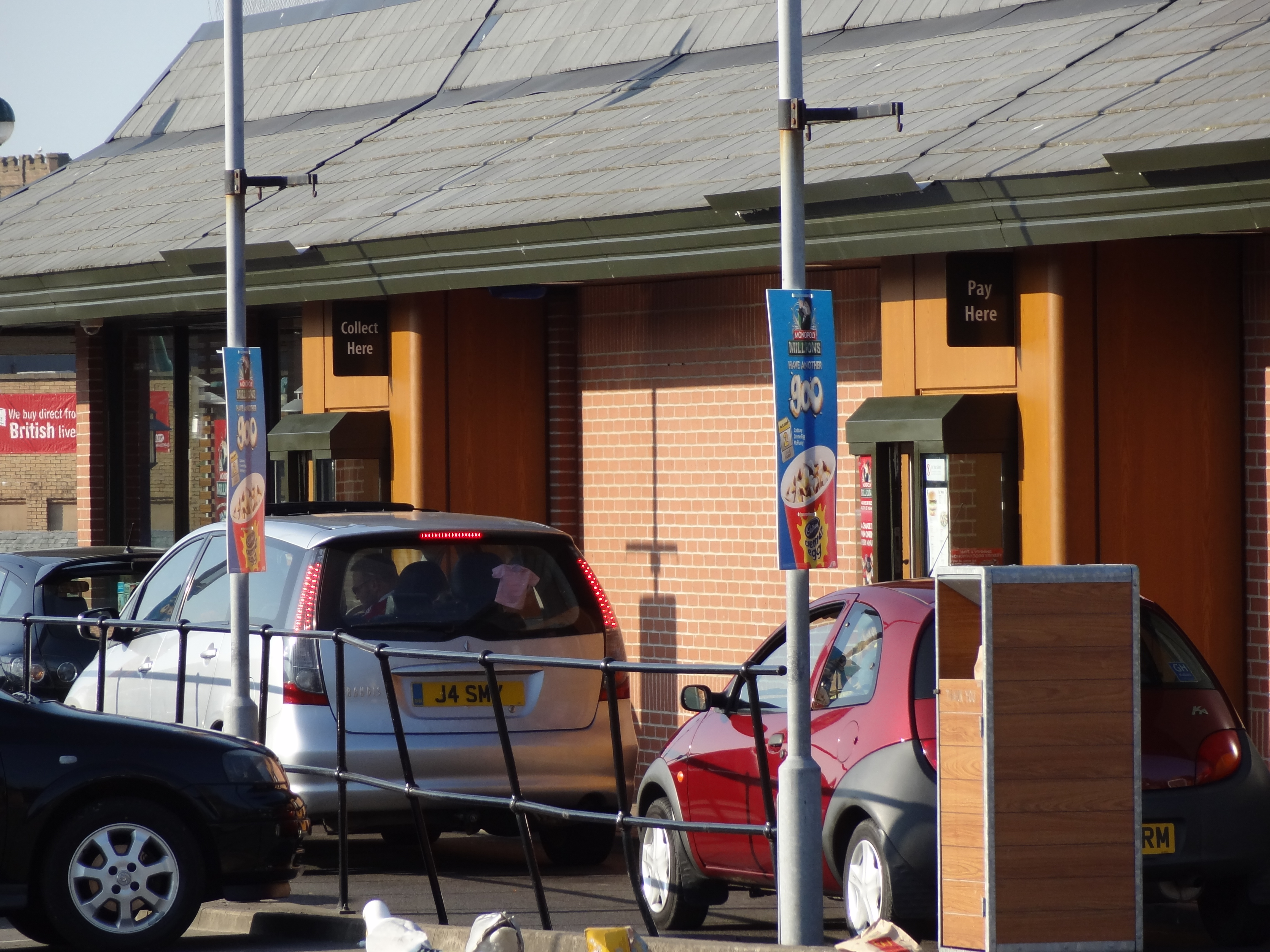 UK McDonald's drive-through windows